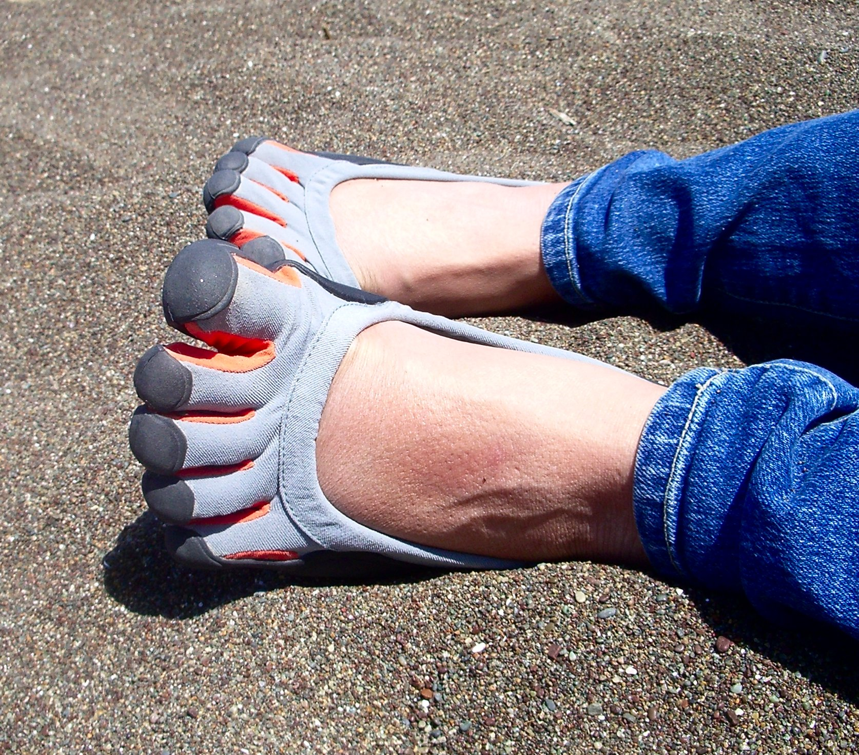 A woman wears Vibram "Five Fingers" shoes.